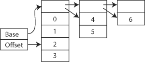 Diagram of a simple VList. Created in Adobe Illustrator and Adobe Photoshop. Based on an illustration by Phil Bagwell in Fast Functional Lists, Hash-Lists, Deques and Variable Length Arrays (2002).